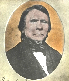 Black Beaver, Lenape Chief, scout and interpreter